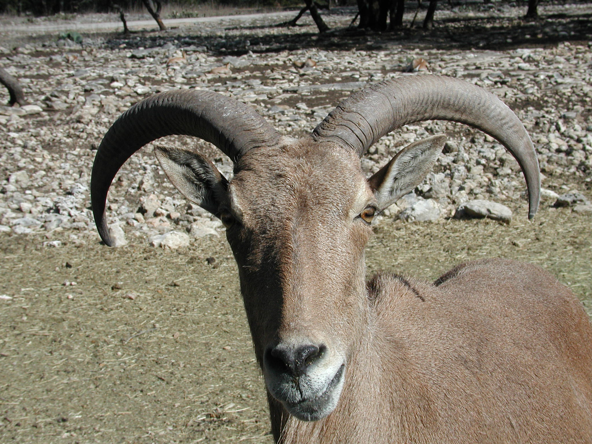 Female at the Wildlife Ranch in San Antonio (Texas).